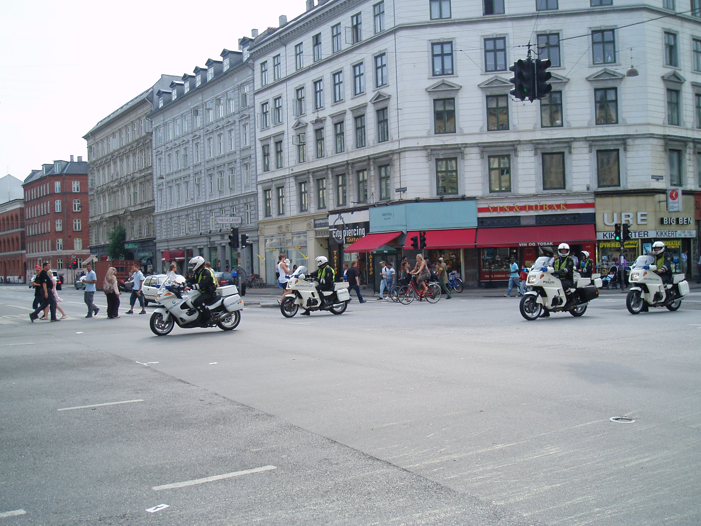 Four motorcycles of Copenhagen Police Department During an demonstration by Hizb ut-Tahrir in Copenhagen the intersection Nørre Farimagsgade/Frederiksborggade is blocked.